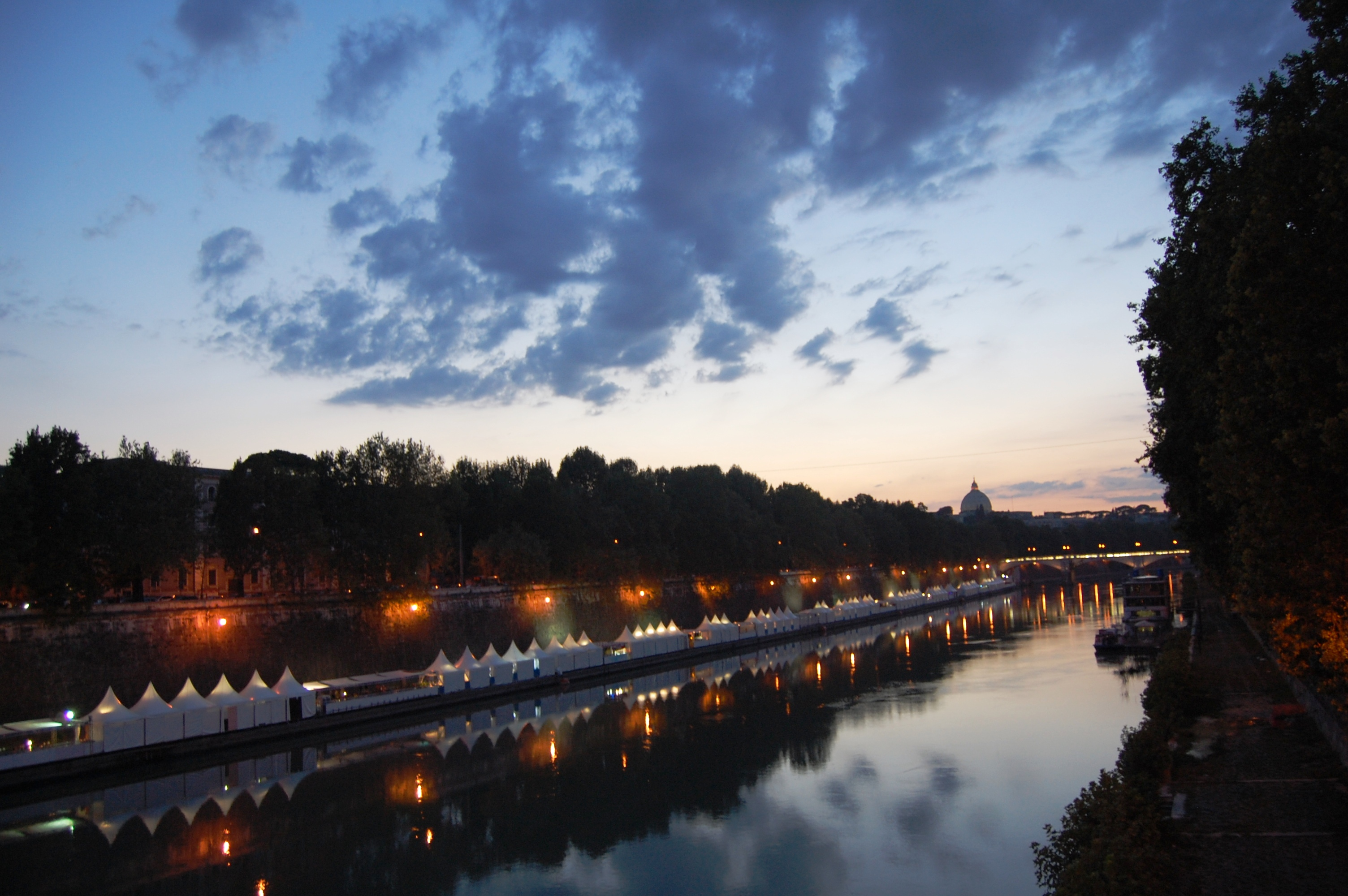 The Tiber River at the twilight with the St. Peter's Basilica behind.